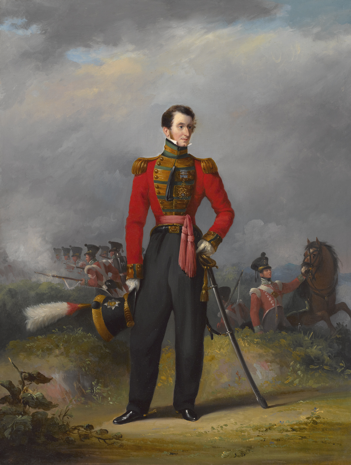 Lieutenant General Sir Thomas Bradford (1777–1853), KCB, Colonel of the 94th Regiment of Foot